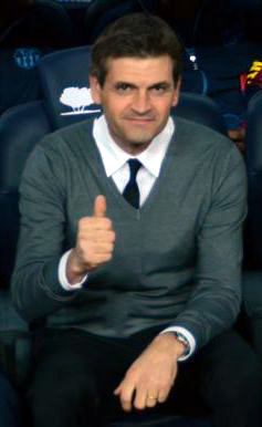 Tito Vilanova, FC Barcelona coach, just before the match between FC Barcelona and Celta de Vigo.